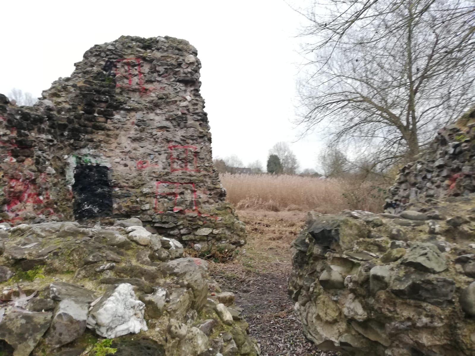 Burg Erprath, Neuss, 8 Feb 2020